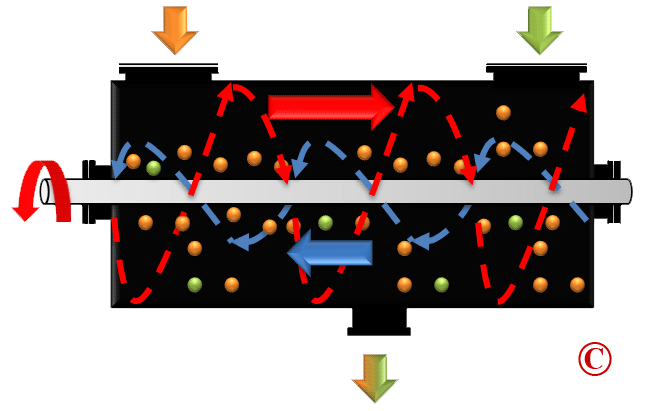 Industrial Ribbon Blender consist of a U-shaped horizontal trough and a specially fabricated ribbon agitator. A ribbon agitator consists of a set of inner and outer helical blades. The outer ribbon moves materials toward the center of the trough, and the inner ribbon moves the materials toward the outside of the trough. The ribbon also rotates at approx. 300 fpm, thus moving materials both radially and laterally to insure thorough blends in short cycle times. Ribbon agitators are used for blends that will be between 40 and 100% of the rated capacity of the blender.